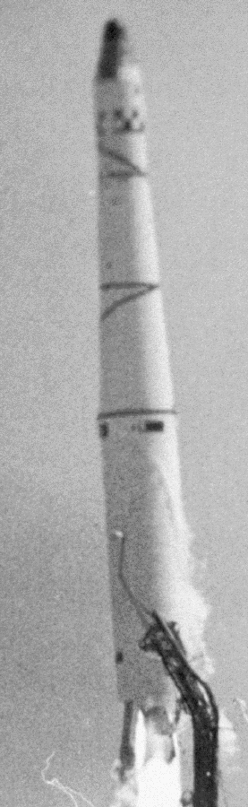 Unsuccessful launch of the Thor Agena A rocket with Discoverer 10 satellite (Corona KH-1 type), 19 February 1960.